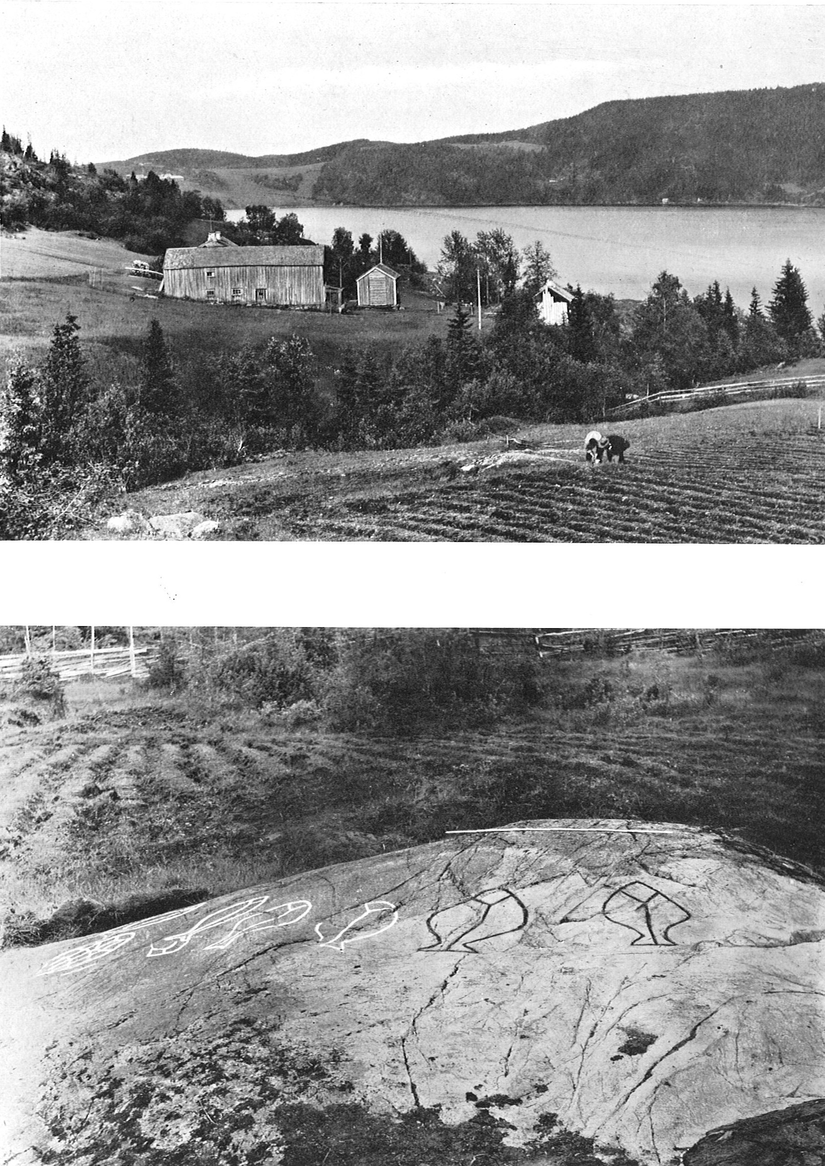 The Kvennavika rock carvings from Mosvik, Nord-Trøndelag, Norway; a set of 12 fishes, probably Halibut (Hippoglossus). Carvings and situation.